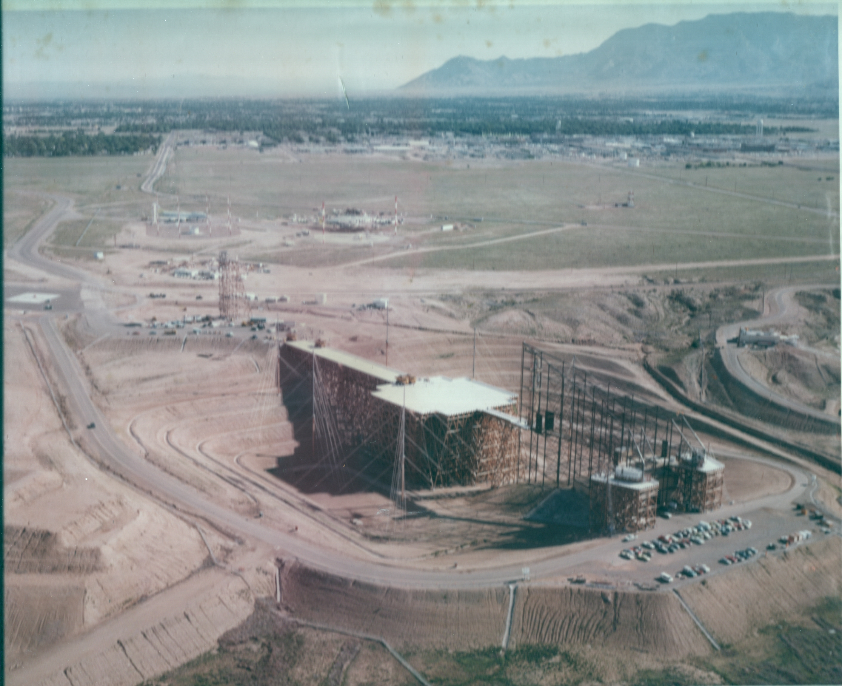 ATLAS-1, TRESTLE facility at Kirtland AFB, NM being load tested with TEREX dump trucks. Notice Air Force 1 in background being tested at the neighboring VPD EMP test site.